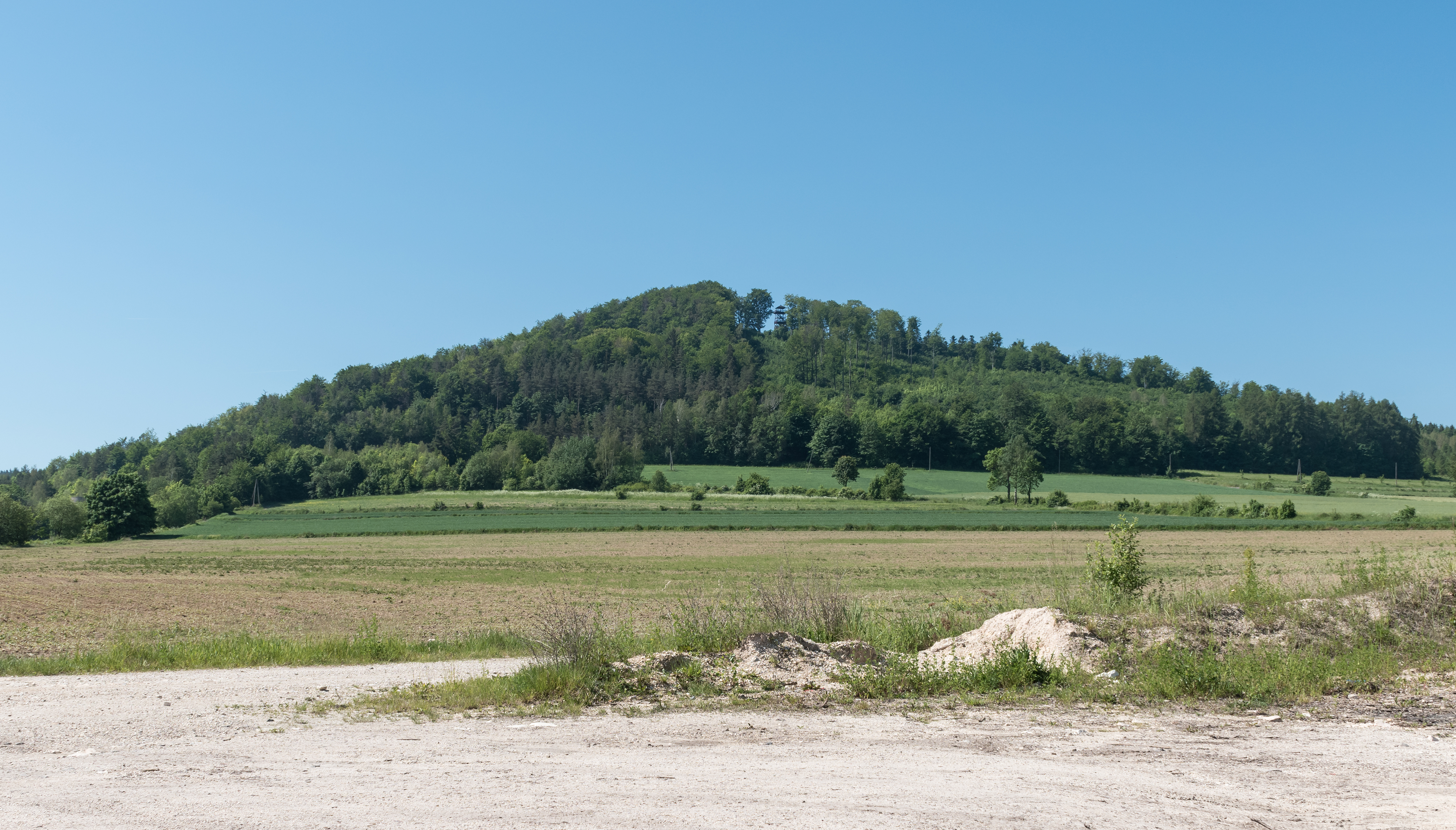 Wapniarka, Krowiarki, Sudetes